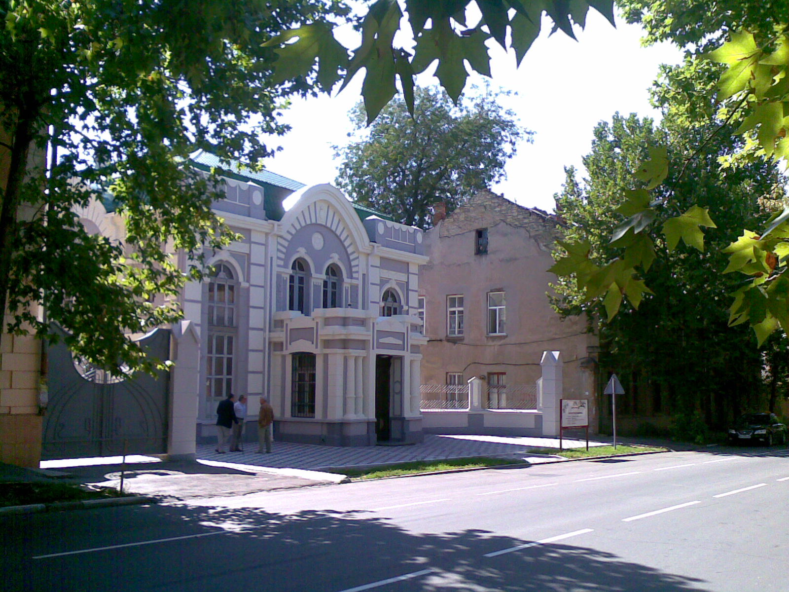 Kherson-Synagogue upgraded